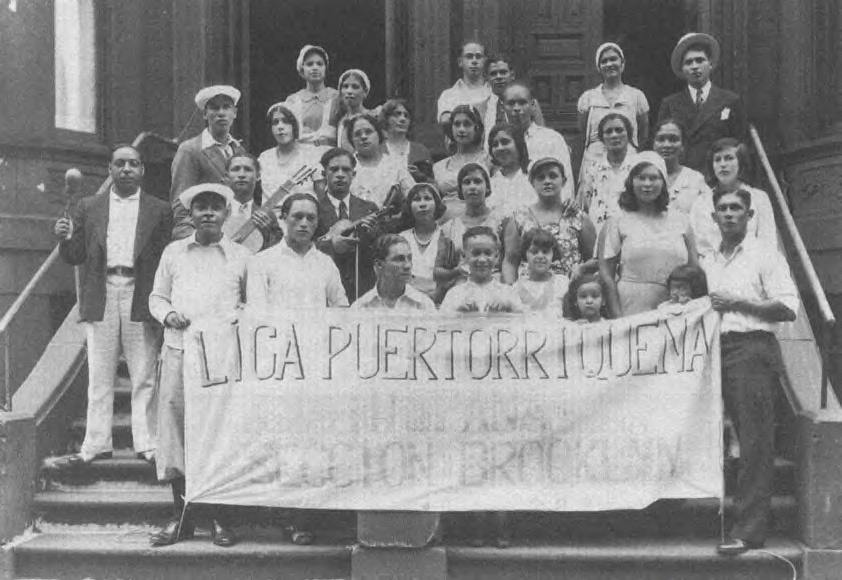 Liga Puertorriqueña de Brooklyn. Note: The second source states the following: "Liga Puertorriquena e Hispana, 1922, Brooklyn section. The liga was an umbrella organization crated in 1922 to unite dozens of Puerto Rican clubs and organizations throughout New York. The liga promoted social and cultural activiyes(JC)."